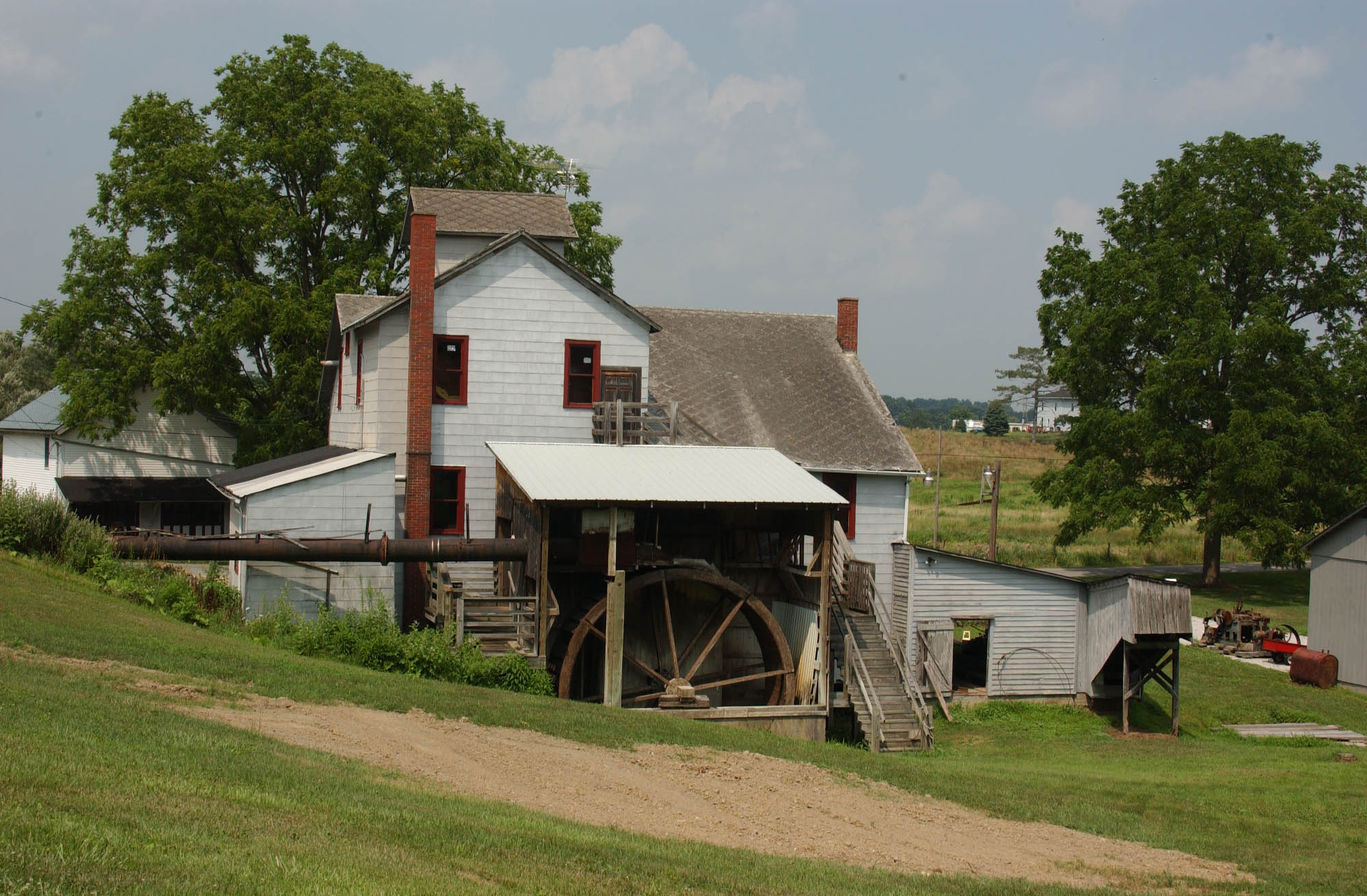 1894 FRAME POWERED BY A WATER- WHEEL